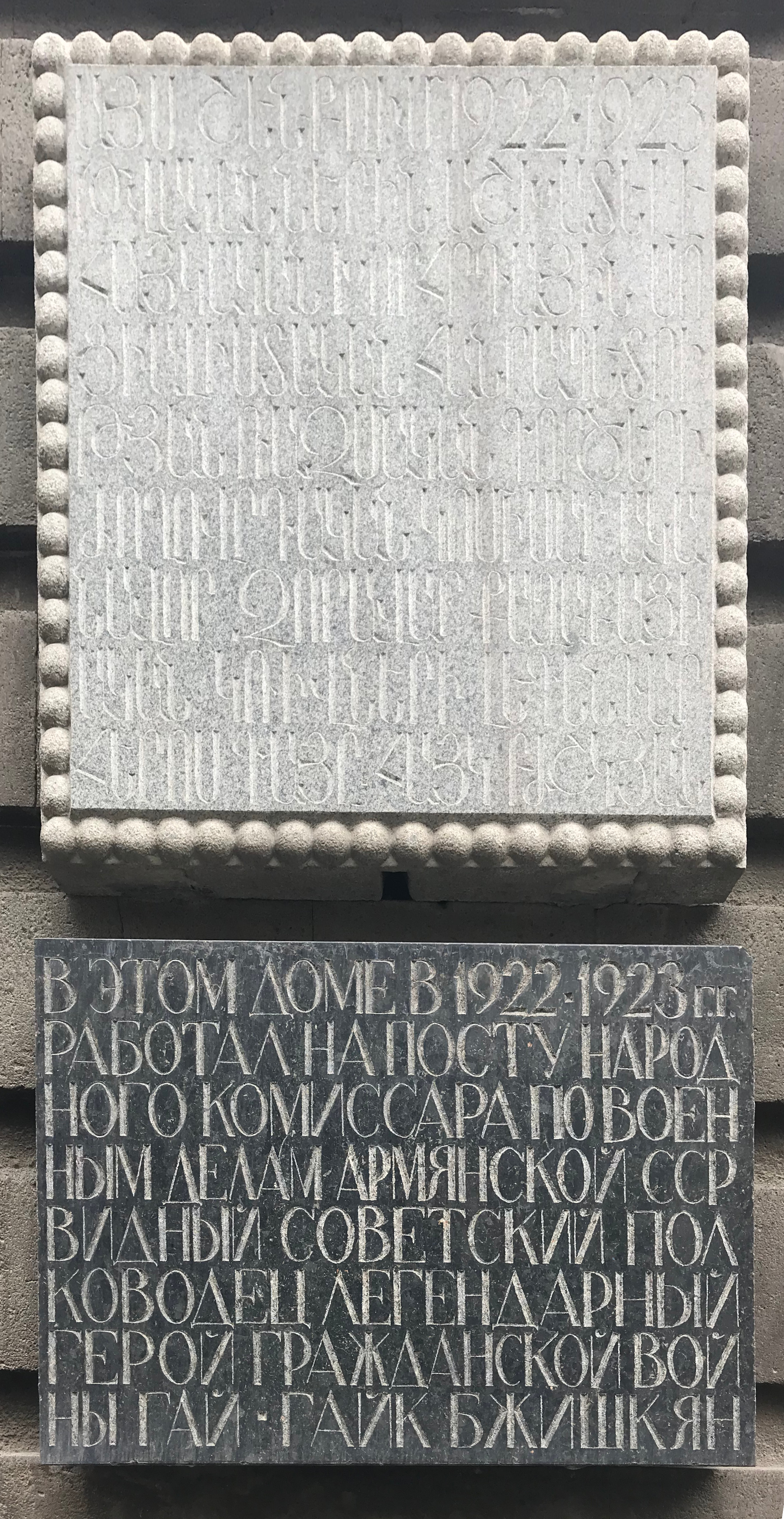 Plaque to Hayk Bzhishkyan in Yerevan